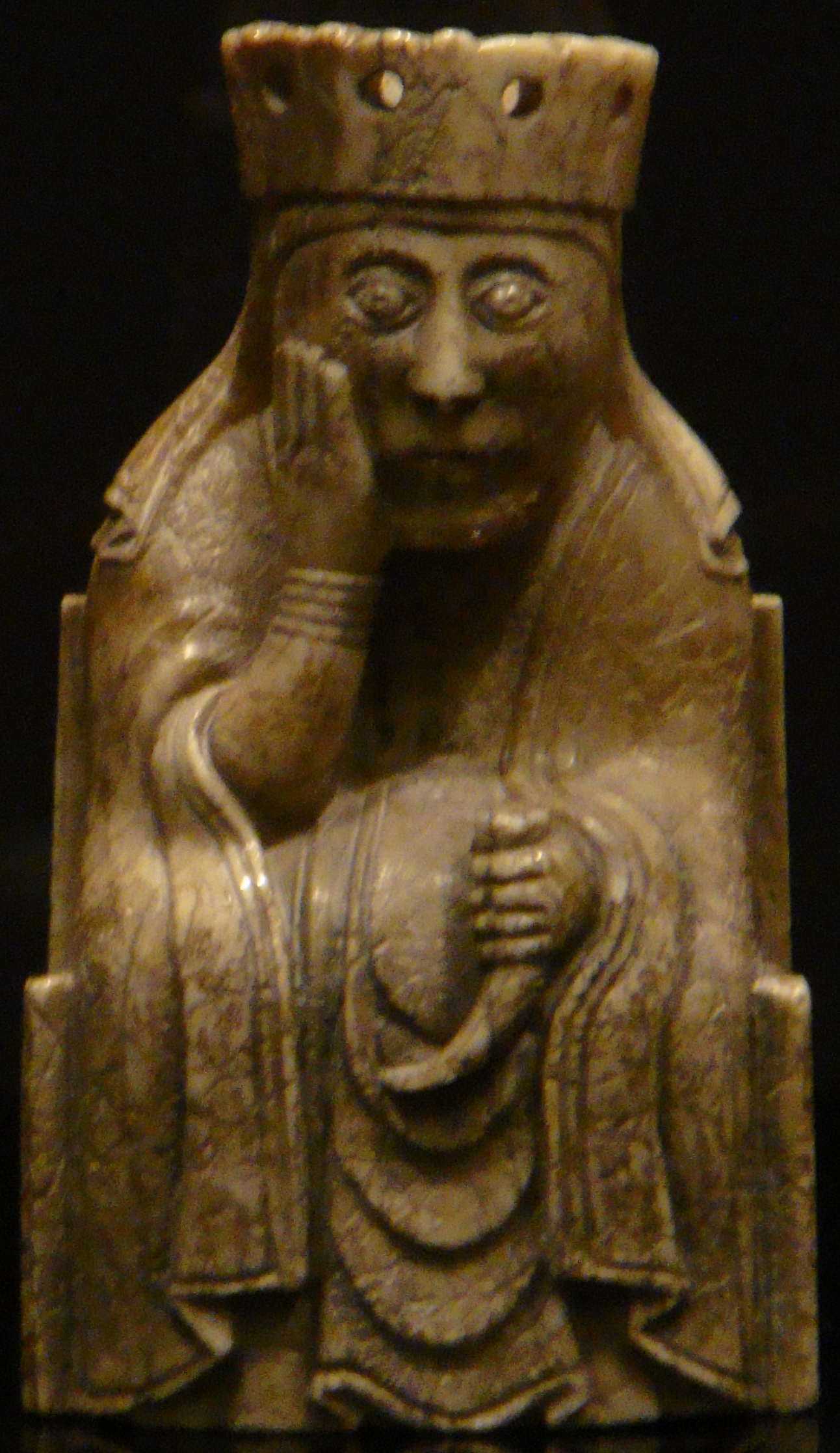 A queen piece of the so-called Lewis chessmen. This image is a cropped version of File:Lewis chessmen 11.JPG.